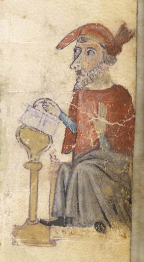 Rabbi Eleazar ben Azaryah seated at a reading desk with an open book. From the Haggadah for Passover (the 'Sister Haggadah').